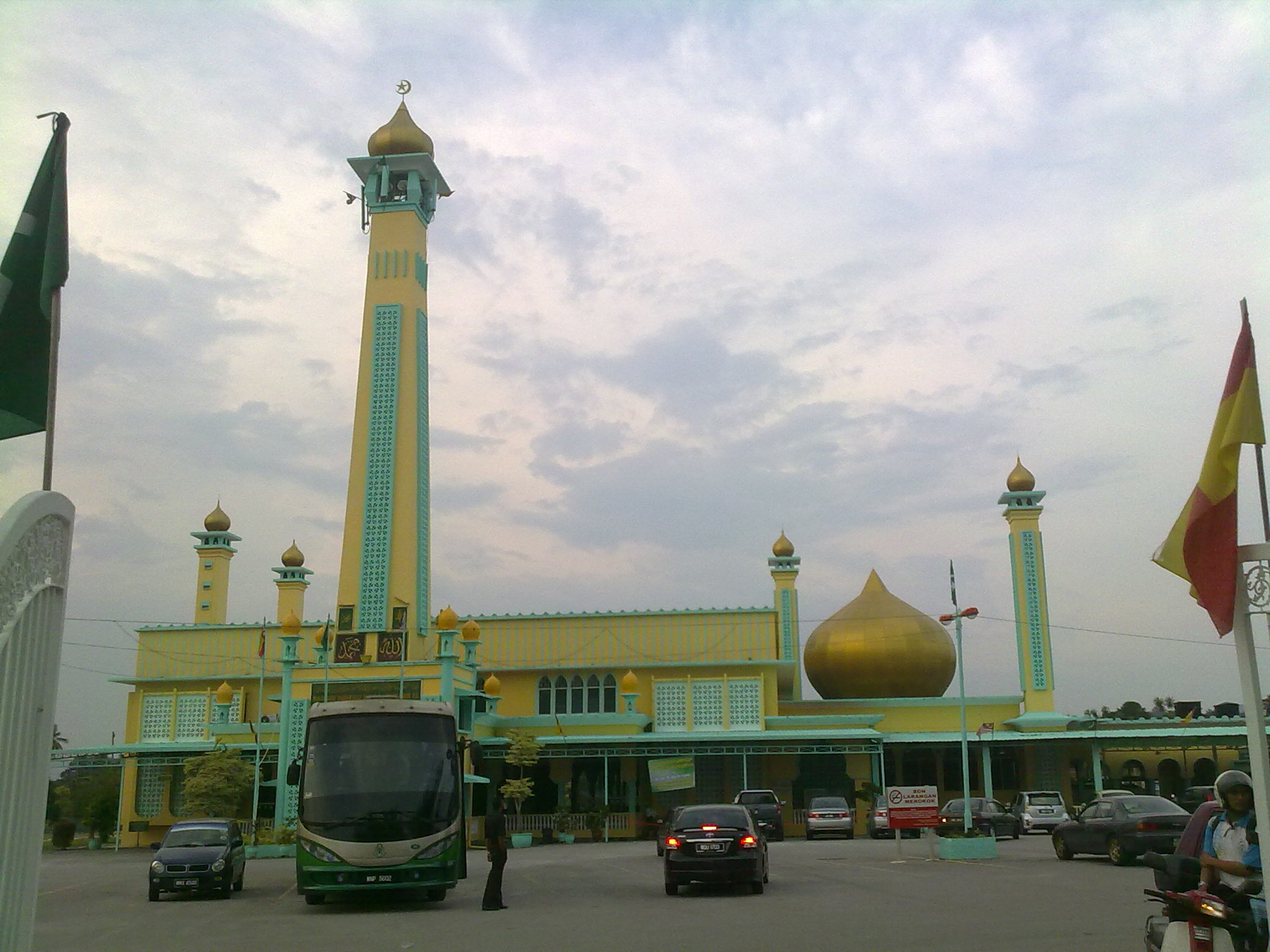 Kajang Mosque, Kajang, Selangor, Malaysia